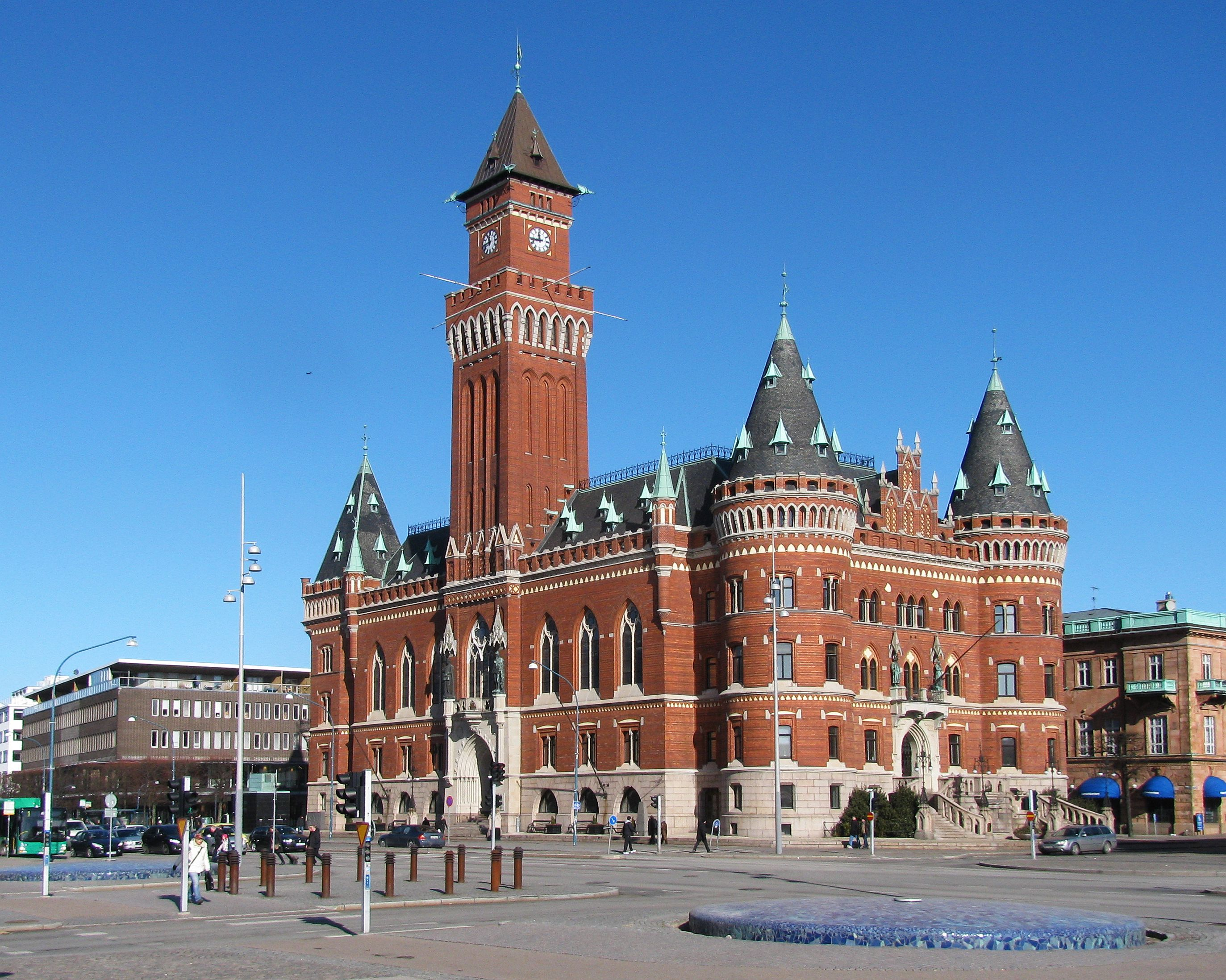 Townhall of Hesingborg